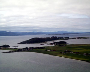 Beian Rønsholmen and Garten of Ørland municipality, Norway. Seen from east